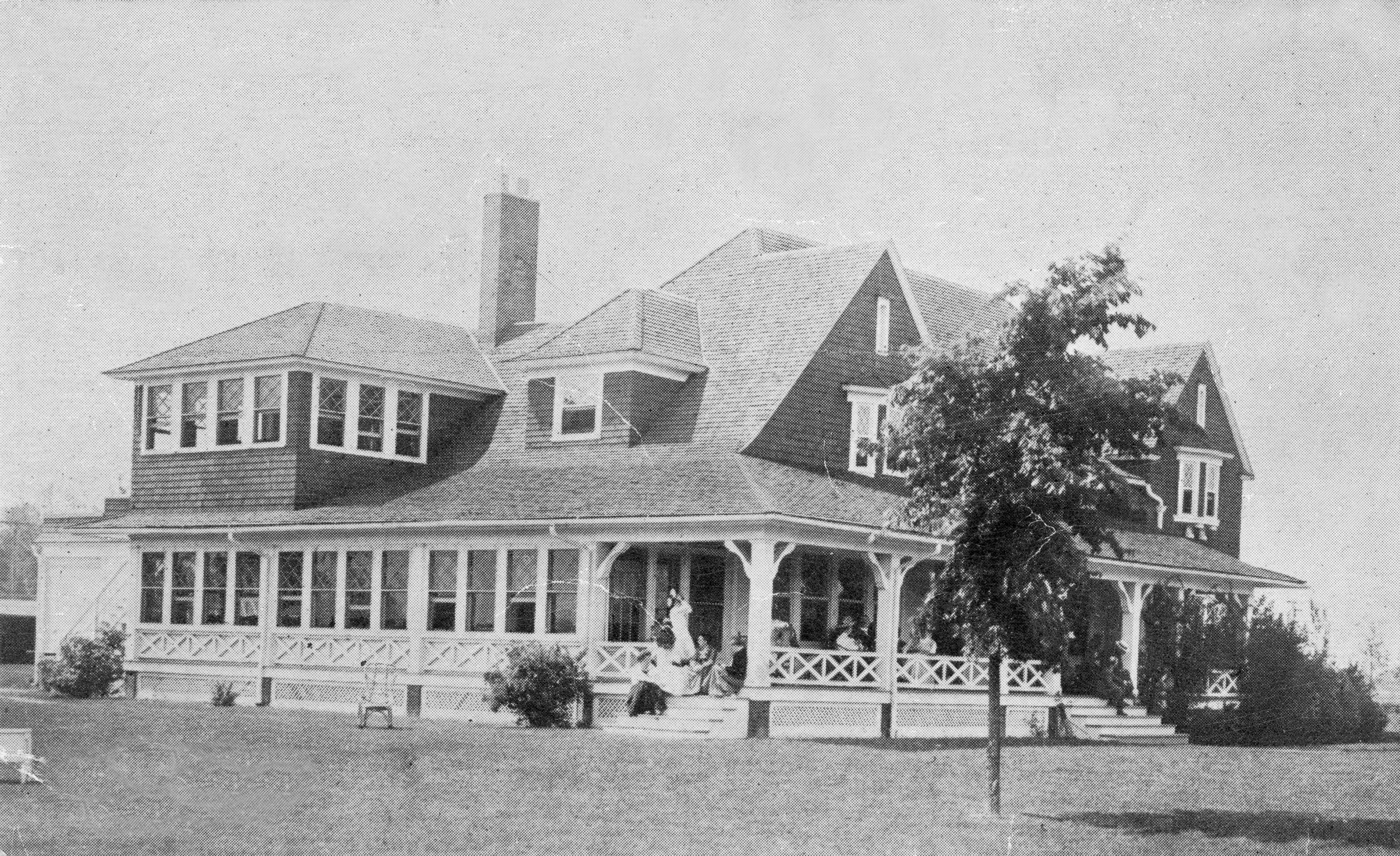 A postcard from the Ken Levin Toledo Postcard Collection, donated by Toledo resident, Ken Levin. The collection contains picture postcards about the Toledo area. Mr. Levin’s collection was published by the Toledo Blade in a book entitled “You Will Do Better in Toledo: From Frogtown to Glass City”, edited by Sandy and John R. Husman.